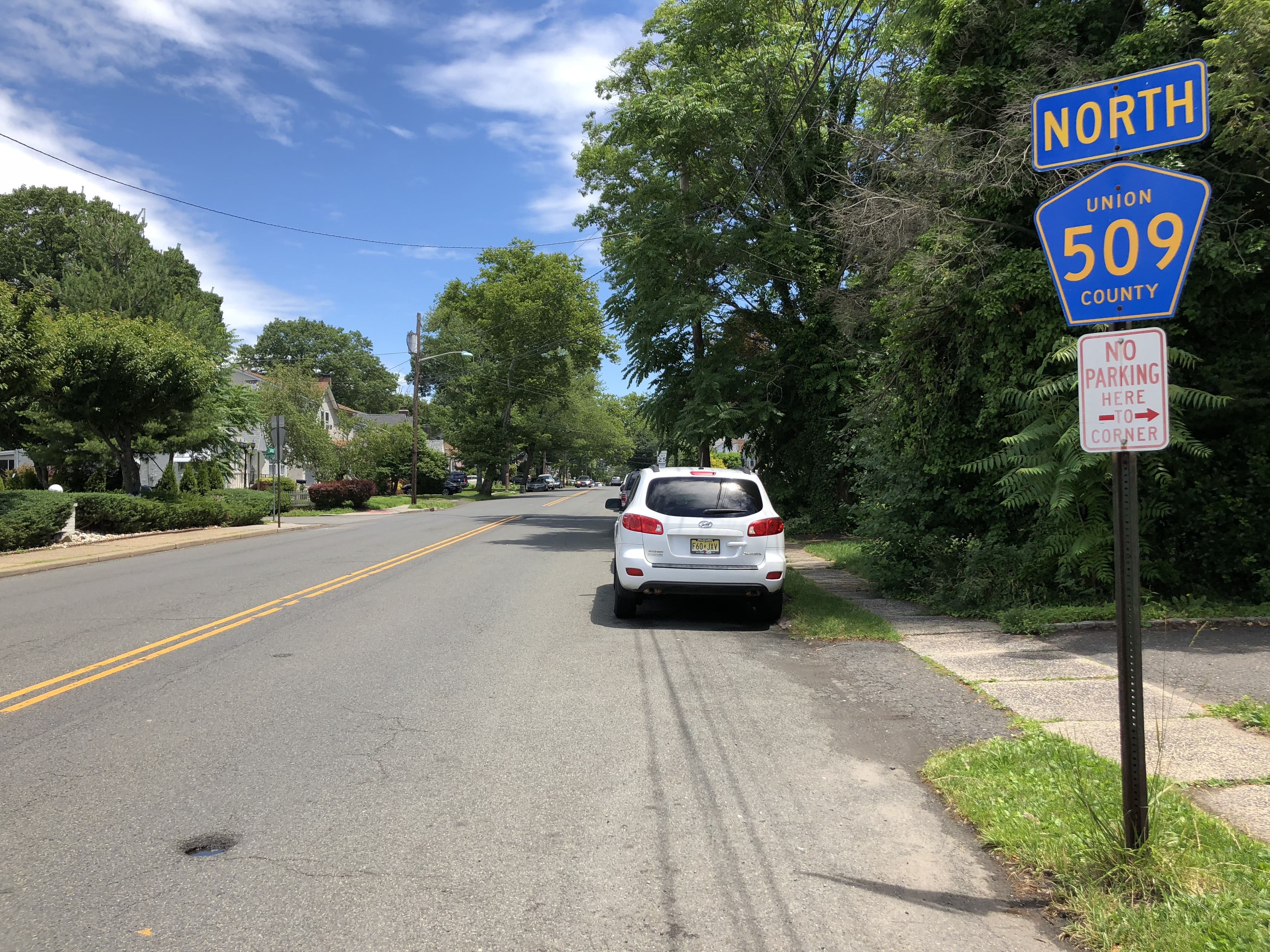 View north along Union County Route 509 (Salem Road) just north of Union County Route 616 (Galloping Hill Road) in Union Township, Union County, New Jersey